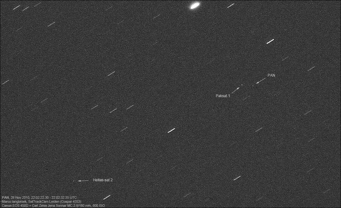 This photograph shows the mysterious classified geostationary satellite PAN (2009-047A), along with two other (commercial) geostationary satellites (photo: Marco Langbroek, Leiden, the Netherlands)